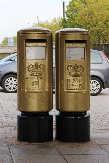 Greg Rutherford's gold postboxes (No. MK9 521 on the left, MK9 334 on the right), outside the Lloyds Court building in Silbury Boulevard, Milton Keynes, Buckinghamshire. Greg is one of three medalists who got a pair of Type-K boxes painted for one medal win.